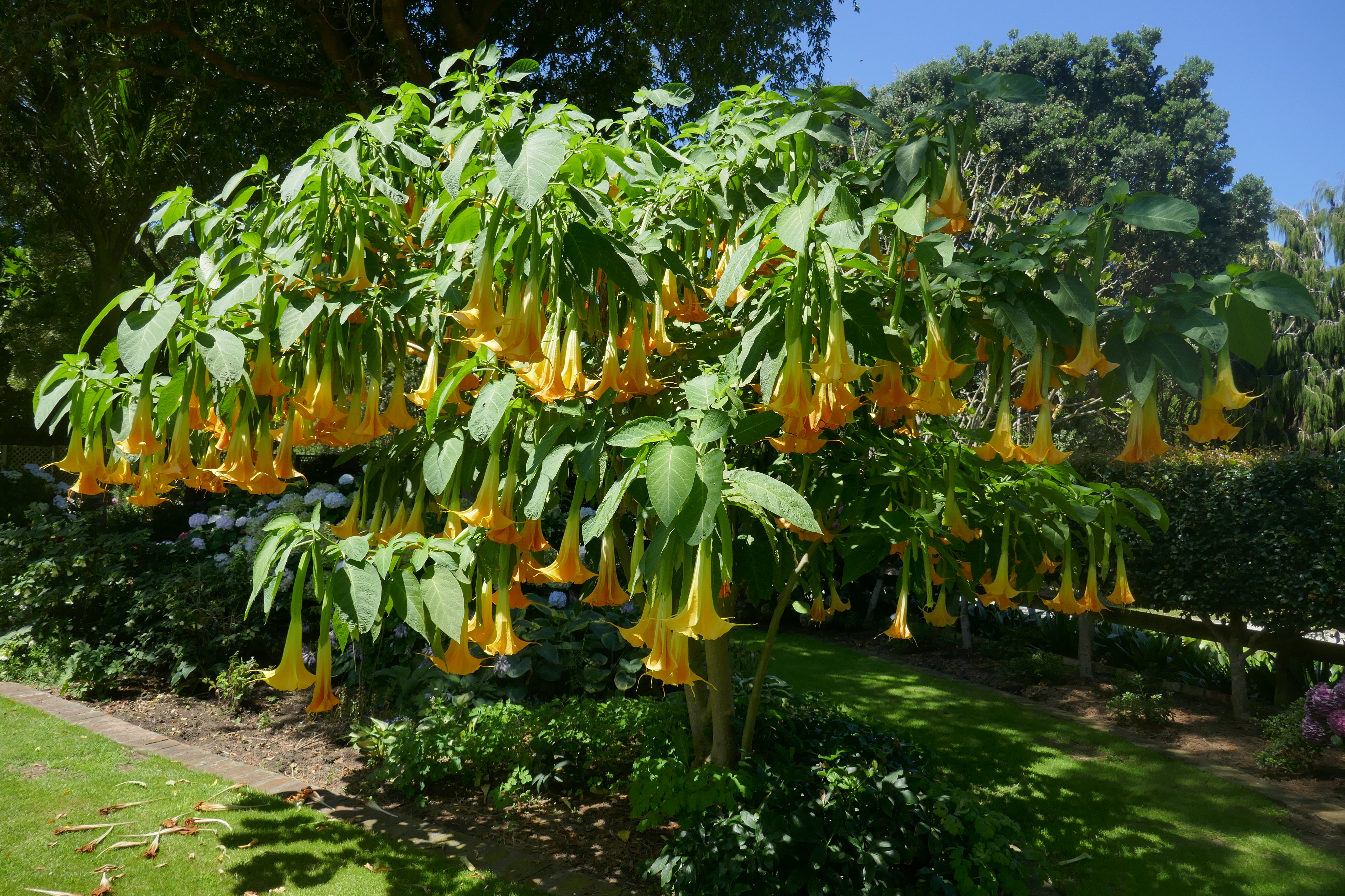 Brugmansia growing is Bason Botanical Gardens, Whanganui